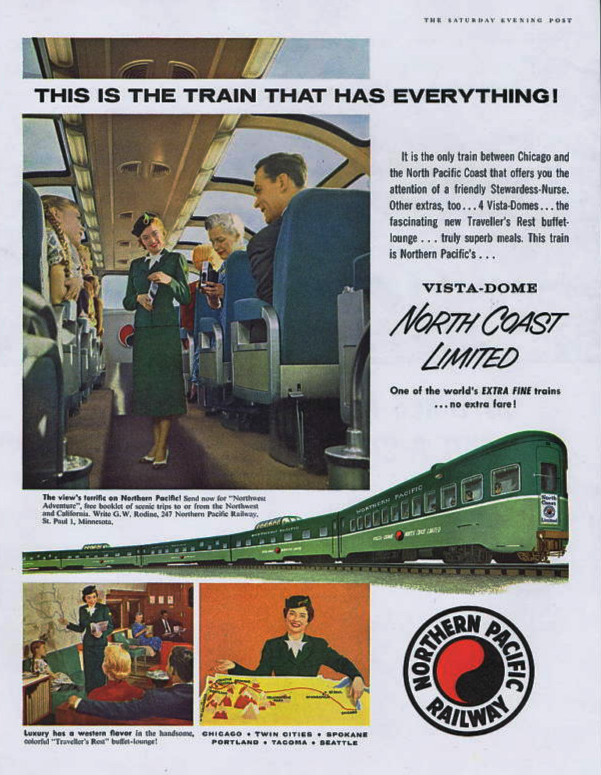 Ad for Northern Pacific Railroad's North Coast Limited. This version of the train ran from 1954 to 1971, when it was discontinued by the Amtrak takeover of most passenger rail service in the US. "1956 Northern Pacific Railway Train Stewardess Nurse Print Ad"